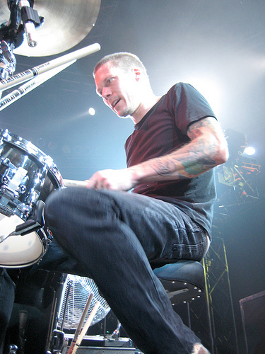 Aaron Solowoniuk of band Billy Talent in 2007 in Quebec City.